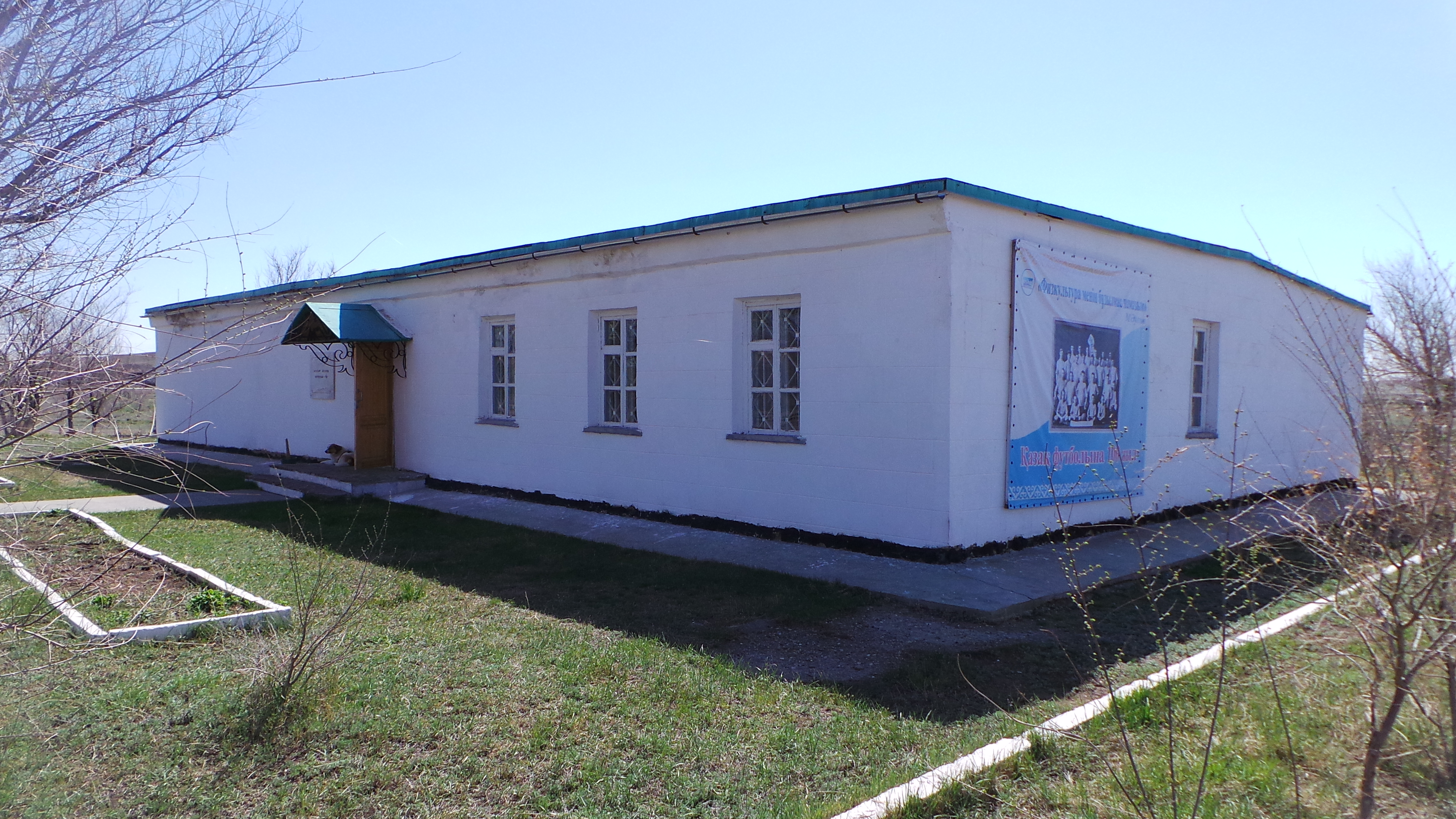 Auezov House in Borli